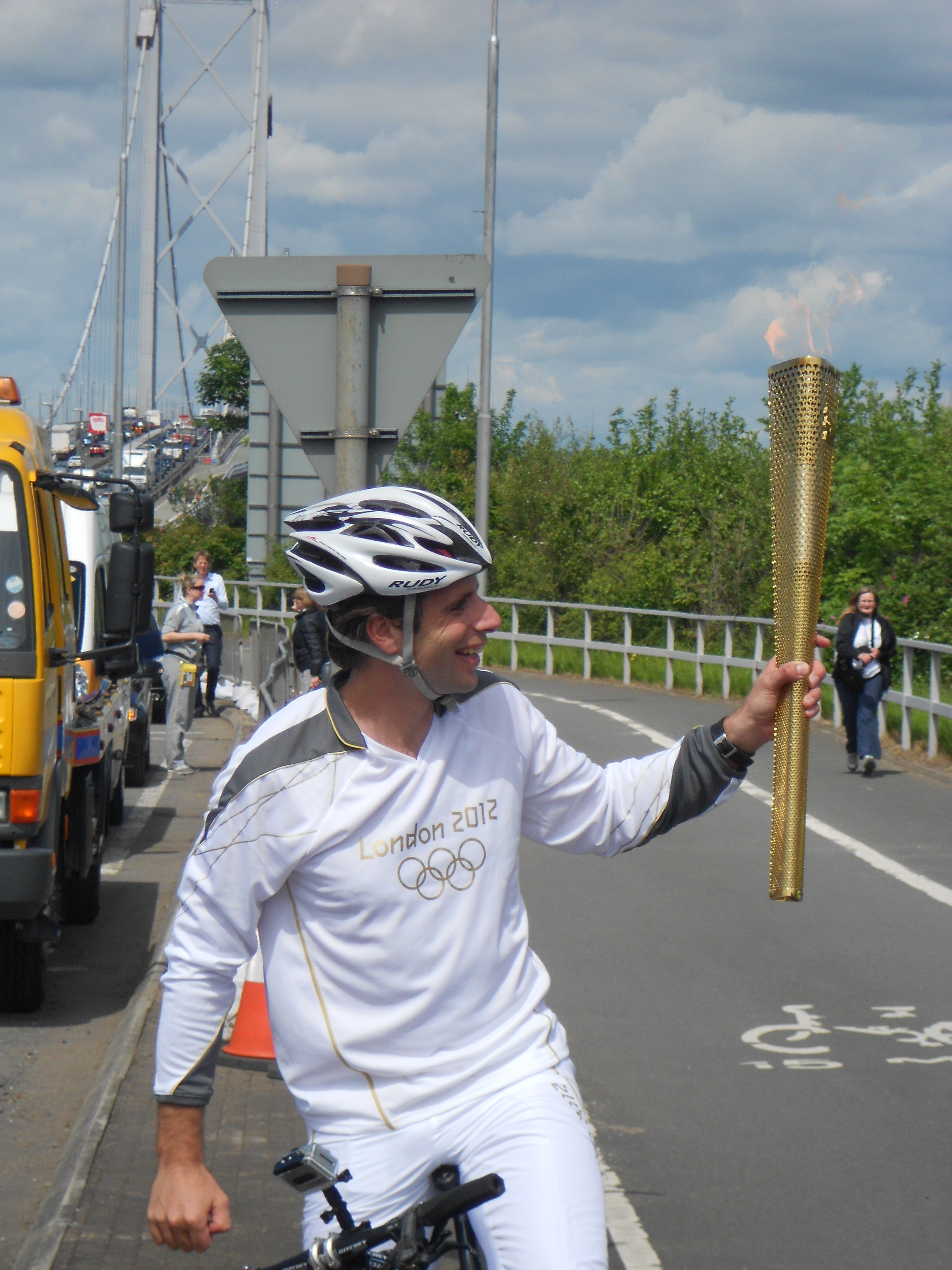 Mark Beaumont carrying the olympic torch for the 2012 Summer Olympics